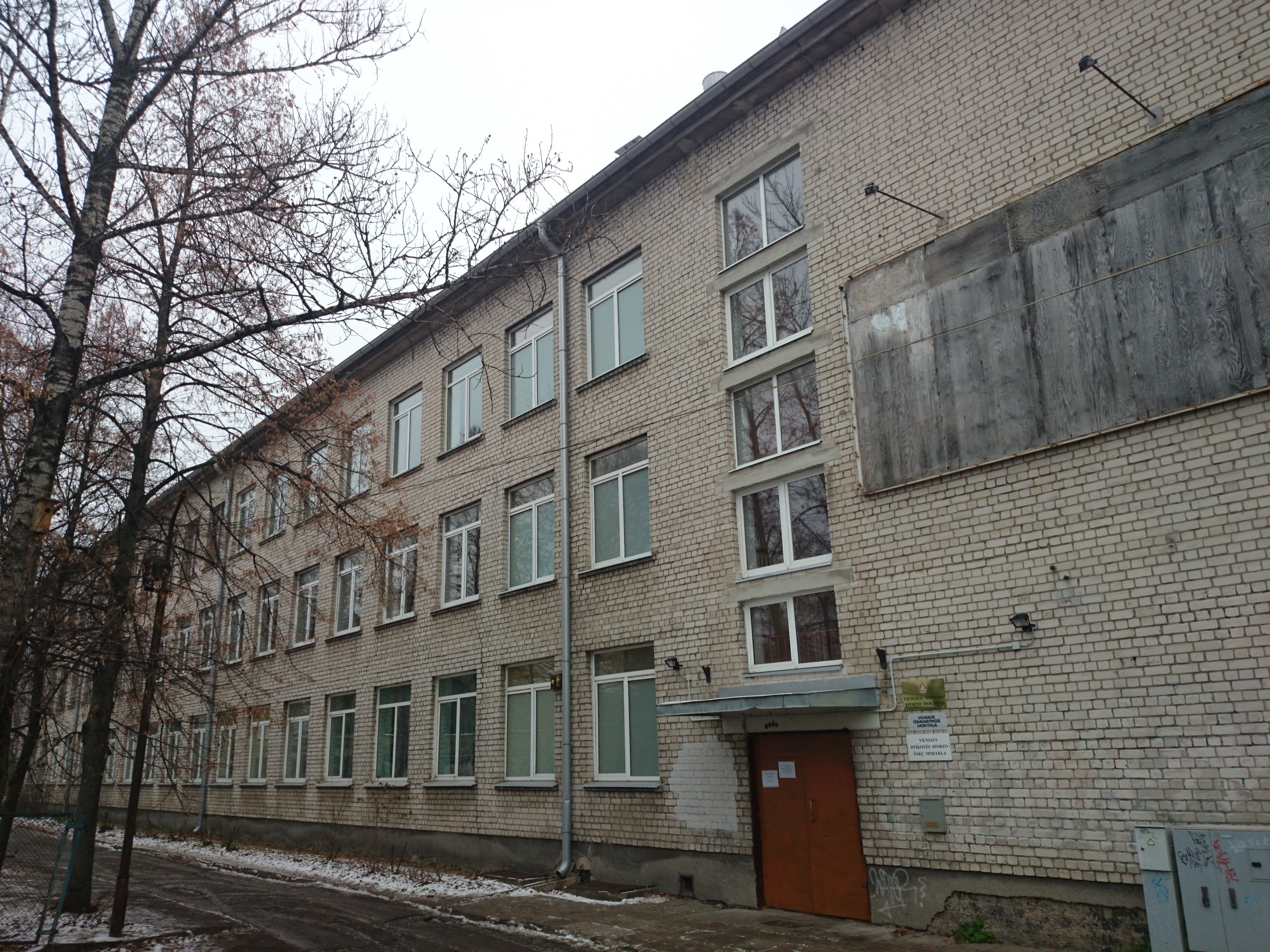 Vilnius gymnastic school